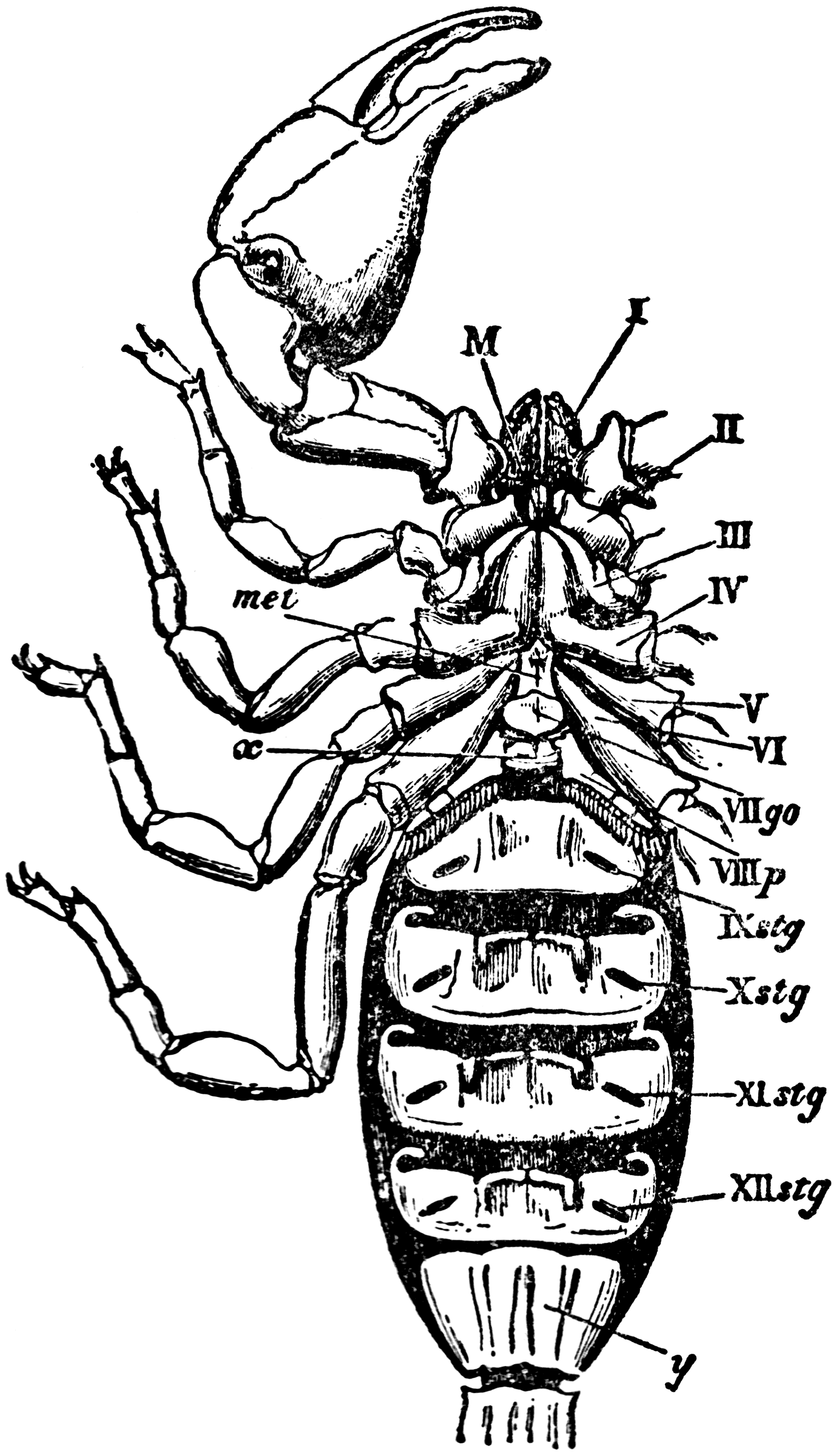 Ventral view of a scorpion, Palamnaeus indus, de Geer, to show the arrangement of the coxae of the limbs, the sternal elements, genital plate and pectens.M, Mouth behind the oval median camerostome.I, The chelicerae.II, The chelae.III to VI, the four pairs of walking legs.VIIgo, The genital somite or first somite of the mesosoma with the genital operculum (a fused pair of limbs).VIIIp, The pectiniferous somite.IXstg to XIIstg, the four pulmonary somites.met, The pentagonal metasternite of the prosoma behind all the coxae.x, The sternum of the pectiniferous somite.y, The broad first somite of the metasoma.